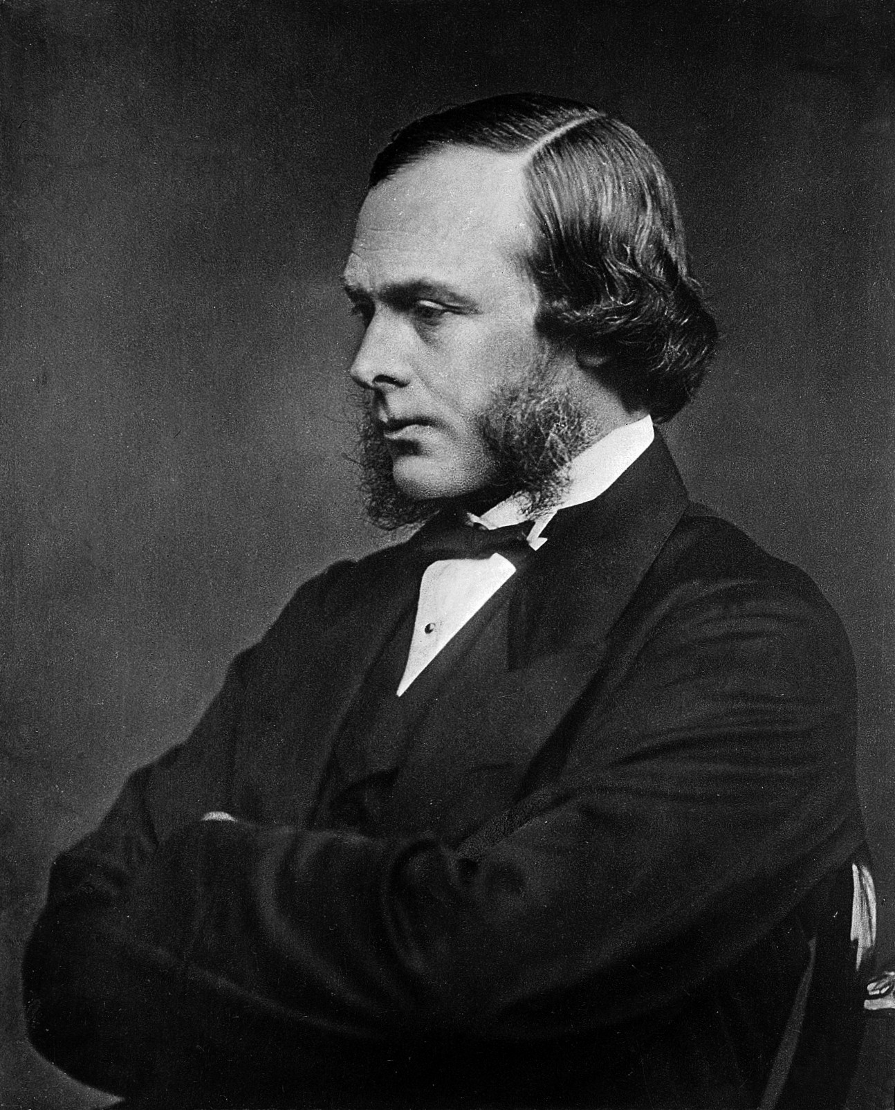 Portrait of The Right Honourable Joseph Lister, 1st Baron Lister [1827 – 1912], British surgeon Iconographic Collections